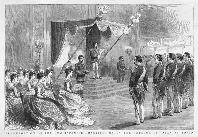 Promulgation of the new Japanese constitution by the Emperor of Japan at Tokio